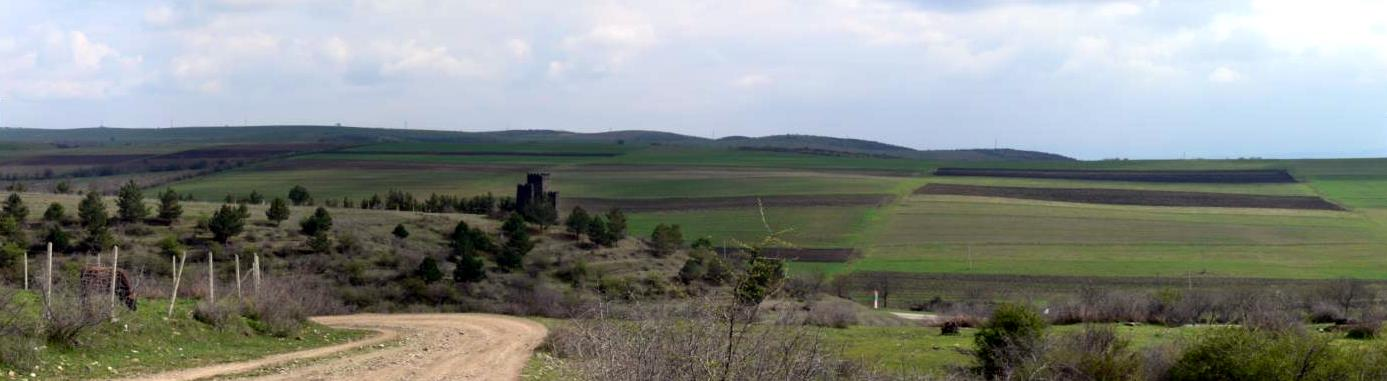 Kakheti Fort in Georgia